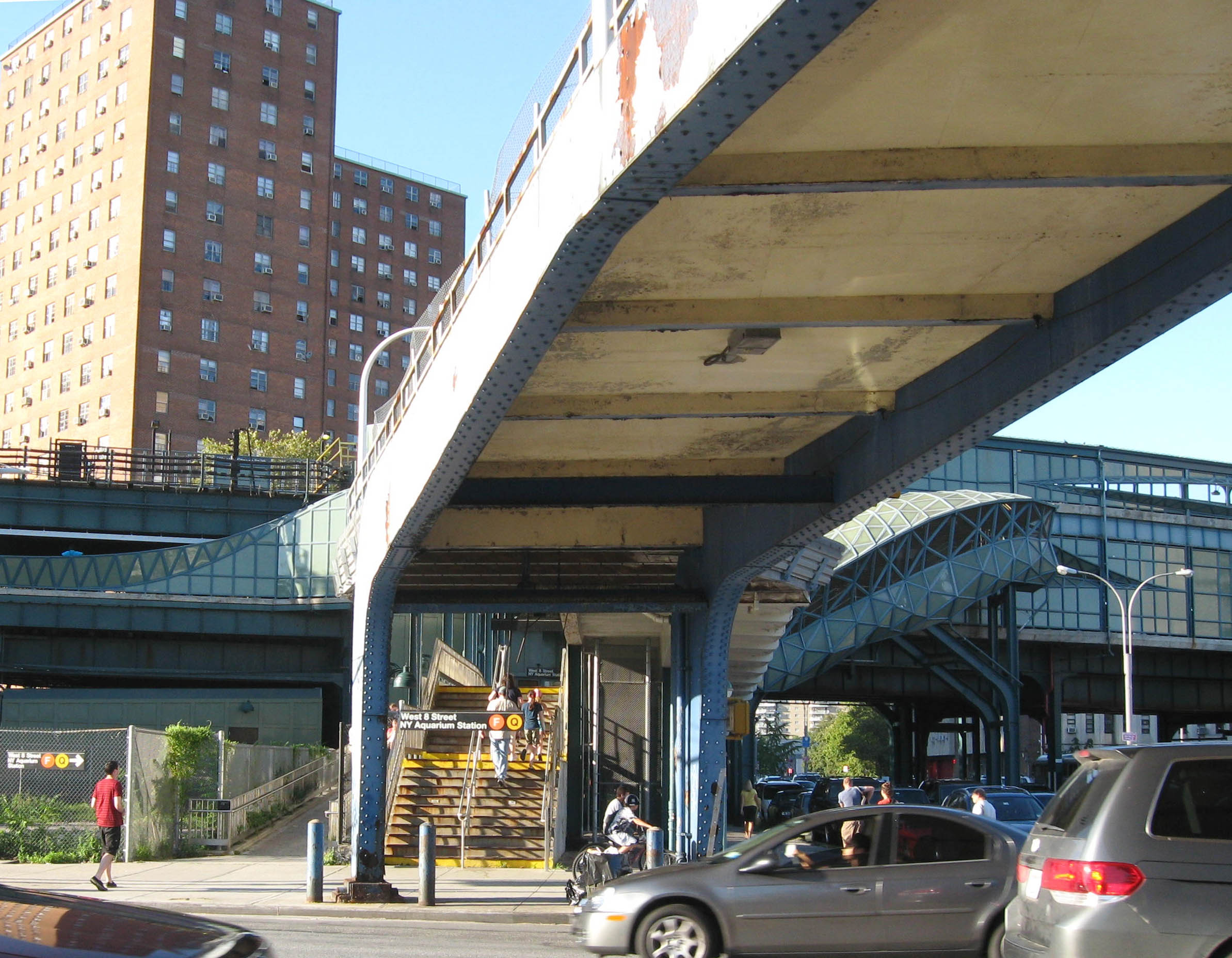 Looking north at West Eighth Street–New York Aquarium (New York City Subway) station from under Aquarium walkway. ZIP 11224.